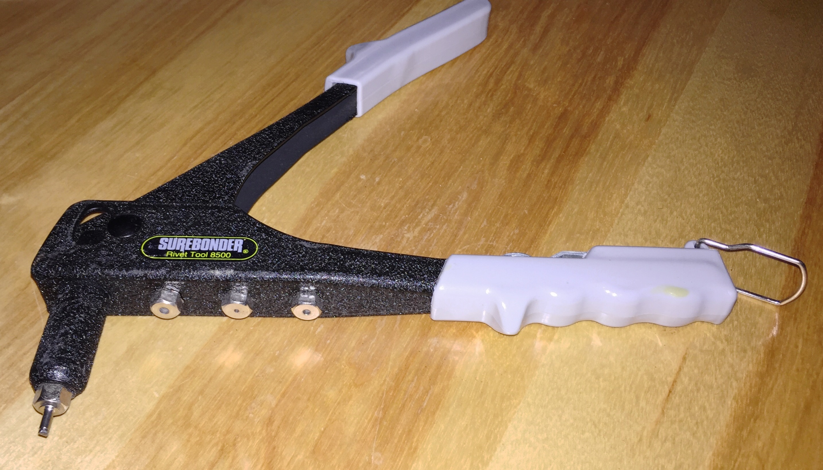 Pop rivet gun